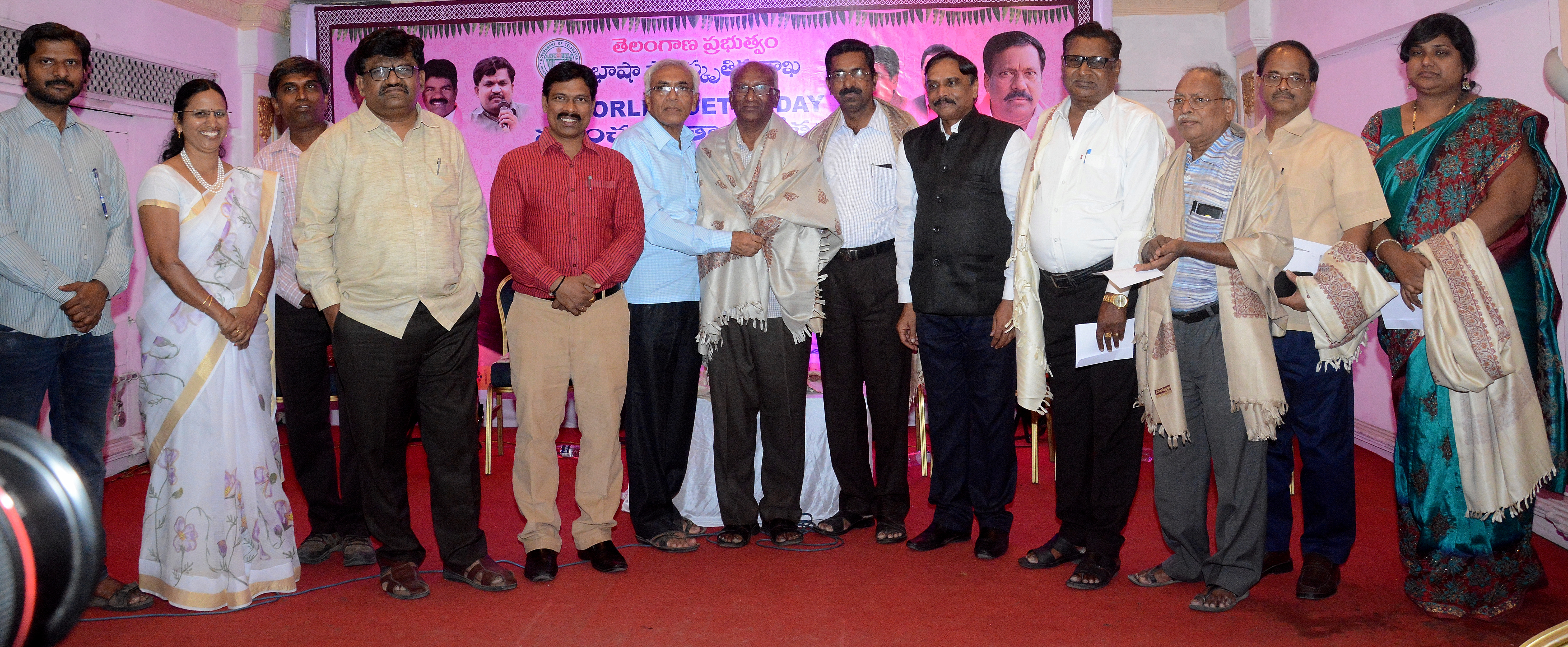 Poetry Reading on World Poetry Day Celebrations (2017) in Ravindra Bharathi